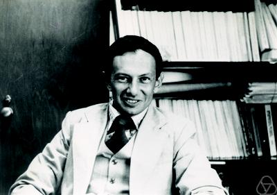 Picture of Kenneth I. Gross